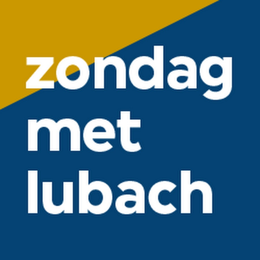 YouTube logo of Zondag met Lubach.